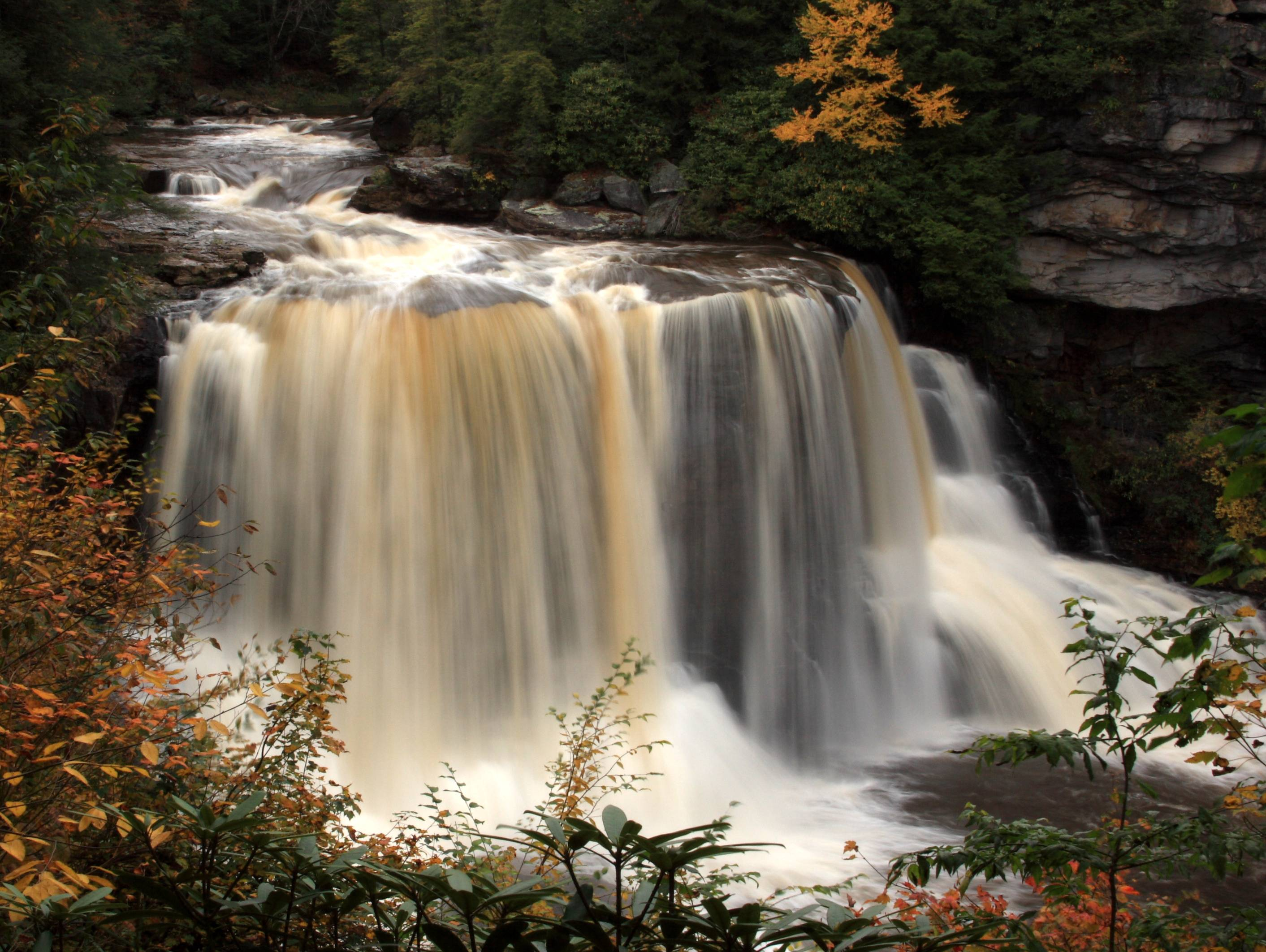 A view of Blackwater Falls State Park, located in the state of West Virginia.